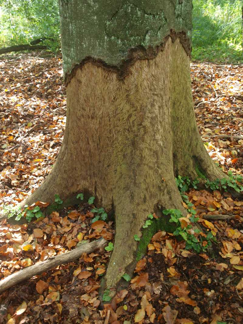 Beavers started their dam.